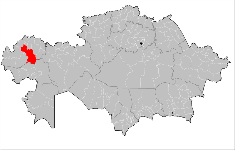 Map of Akzhaik District in Kazakhstan. for public domain use, using MapInfo Professional v8.5 and various mapping resources.